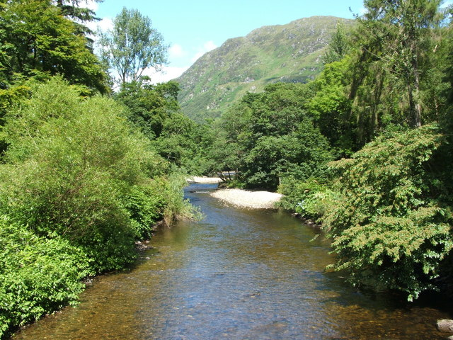 The River Eachaig, from a footbridge In order to gain access to Benmore Botanic Garden from the Garden's entrance and ticket office, visitors cross this river by means of a footbridge; this photo, looking upstream, was taken from that bridge. The river name, "Eachaig", is explained in "The Celtic Placenames of Scotland" (by W.J.Watson, 1926) as meaning "horsie": it is the Gaelic "each" (meaning "horse"), combined with a diminutive suffix "-a(i)g". The river flows from Loch Eck. The similarity of "Eck" to "Eachaig" is no accident; their names have a common root: Loch Eck is the "Horse Loch", again from the Gaelic "each".